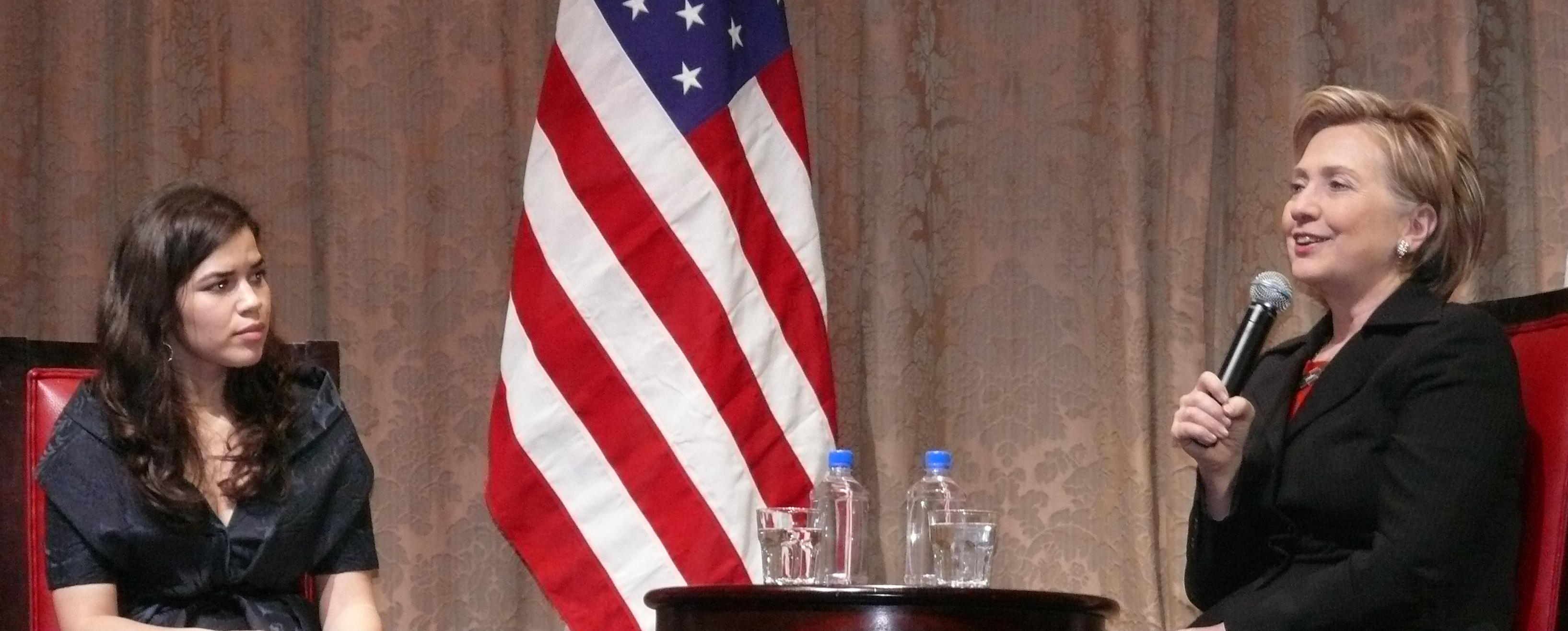 "Ugly Betty" and Hillary on the stage